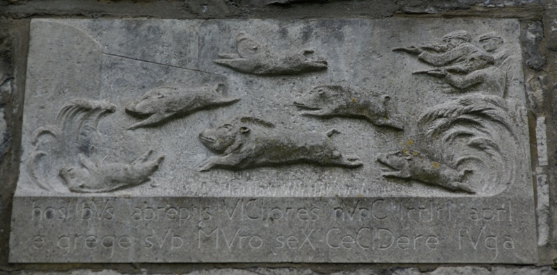 Memorial stone "Swine hunt", Aldenhofpark, Maastricht, The Netherlands. By Charles Vos, 1947.